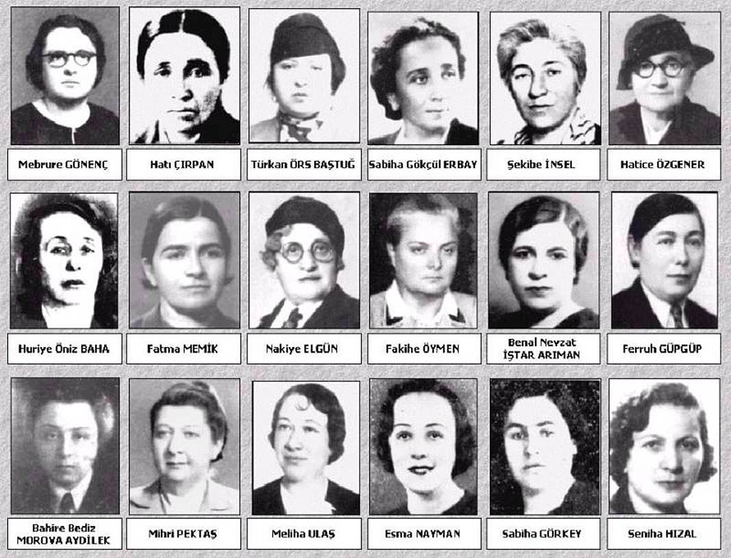 The first female MPs of the Turkish Parliament, elected with the 8 February 1935 general elections. Top row (left to right): Mebrure Gönenç (Afyon), Hatı Çırpan (Ankara), Türkan Örs Baştuğ (Antalya), Sabiha Gökçül Erbay (Balıkesir), Şekibe İnsel (Bursa), Hatice Özgener (Çankırı); Middle row (left to right): Huriye Öniz Baha (Diyarbakır), Fatma Memik (Edirne), Nakiye Elgün (Erzurum), Fakihe Öymen (Ankara), Benal Nevzat İştar Arıman (İzmir), Ferruh Güpgüp (Kayseri); Bottom row (left to right): Bahire Bediş Morova Aydilek (Konya), Mihri Pektaş (Malatya), Meliha Ulaş (Samsun), Fatma Esma Nayman (Seyhan), Sabiha Görkey (Sivas), Seniha Hızal (Trabzon).